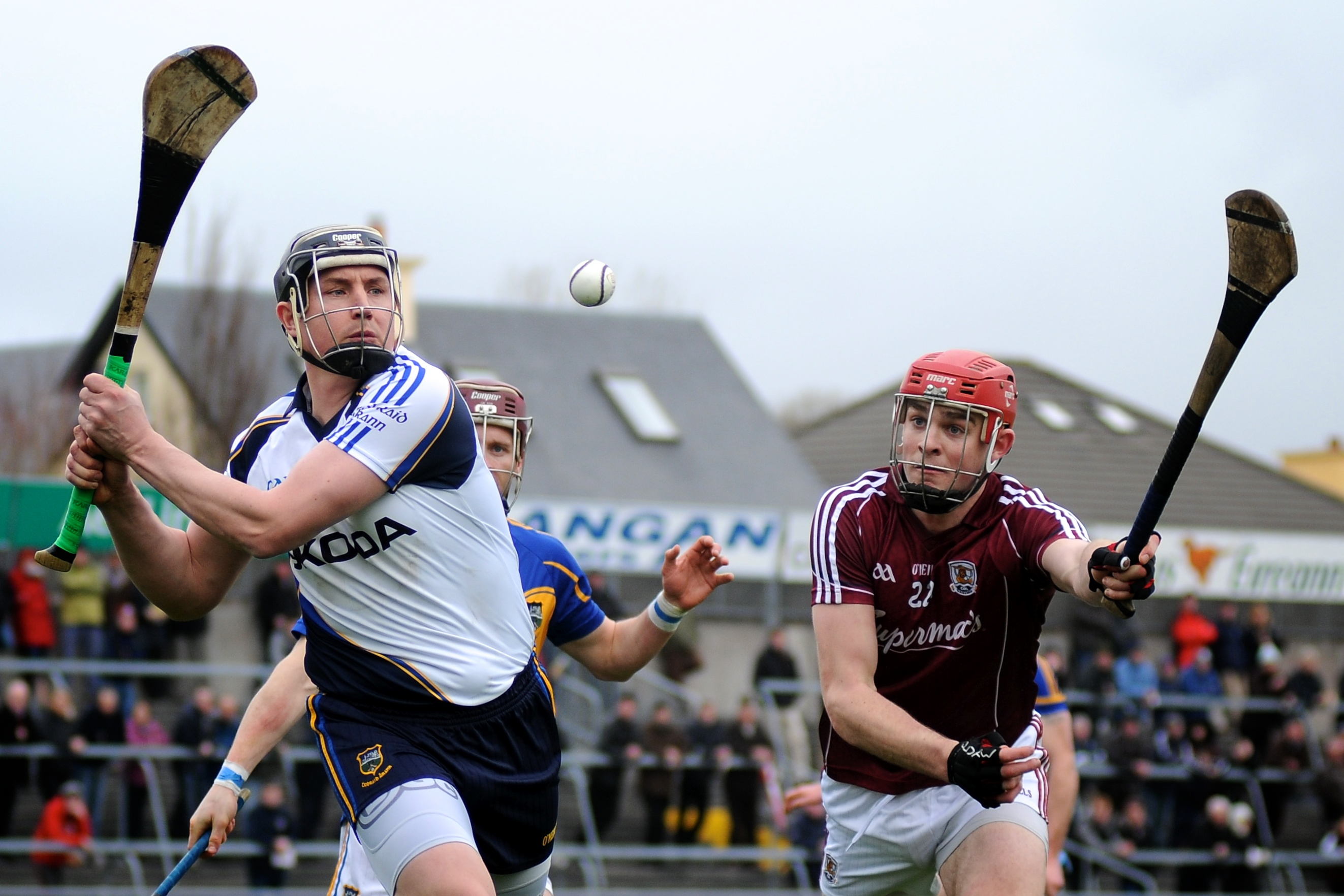 Darren Gleeson of Tipperary and Jonathan Glynn of Galway in action in the 2014 National Hurling League